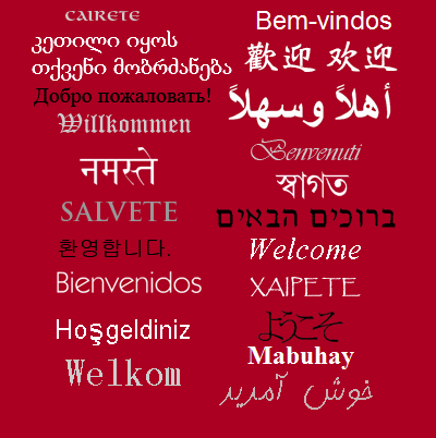 Just a pic of the ways to say welcome in different languages, I did this myself Epson291 21:20, 3 March 2007 (UTC)